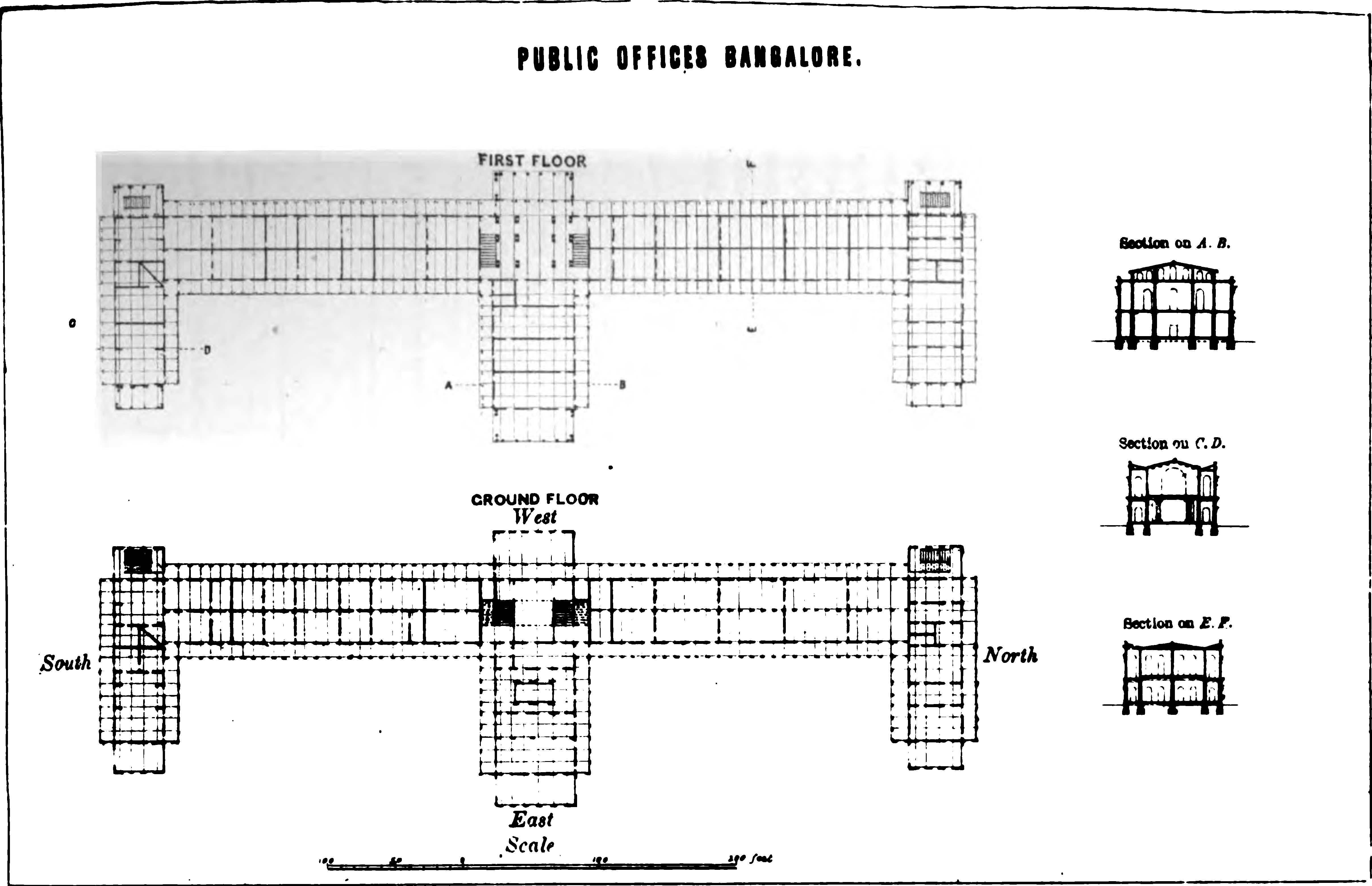 Plan of Attara Kacheri, the govt office in Bangalore. Lang, AM Major (Ed.) (1878) Professional papers on Indian Engineering (Second series). Vol 2. Roorkee. scan